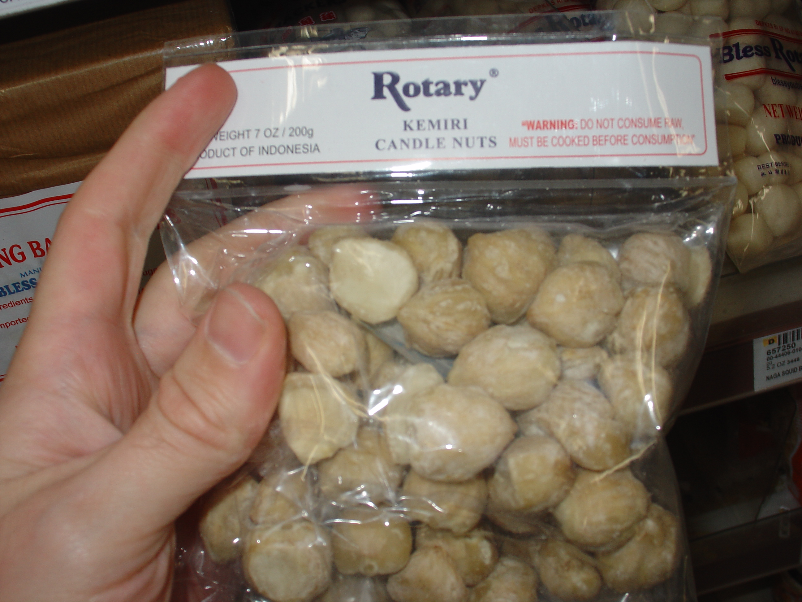 Candle nuts (kemiri) from Indonesia.